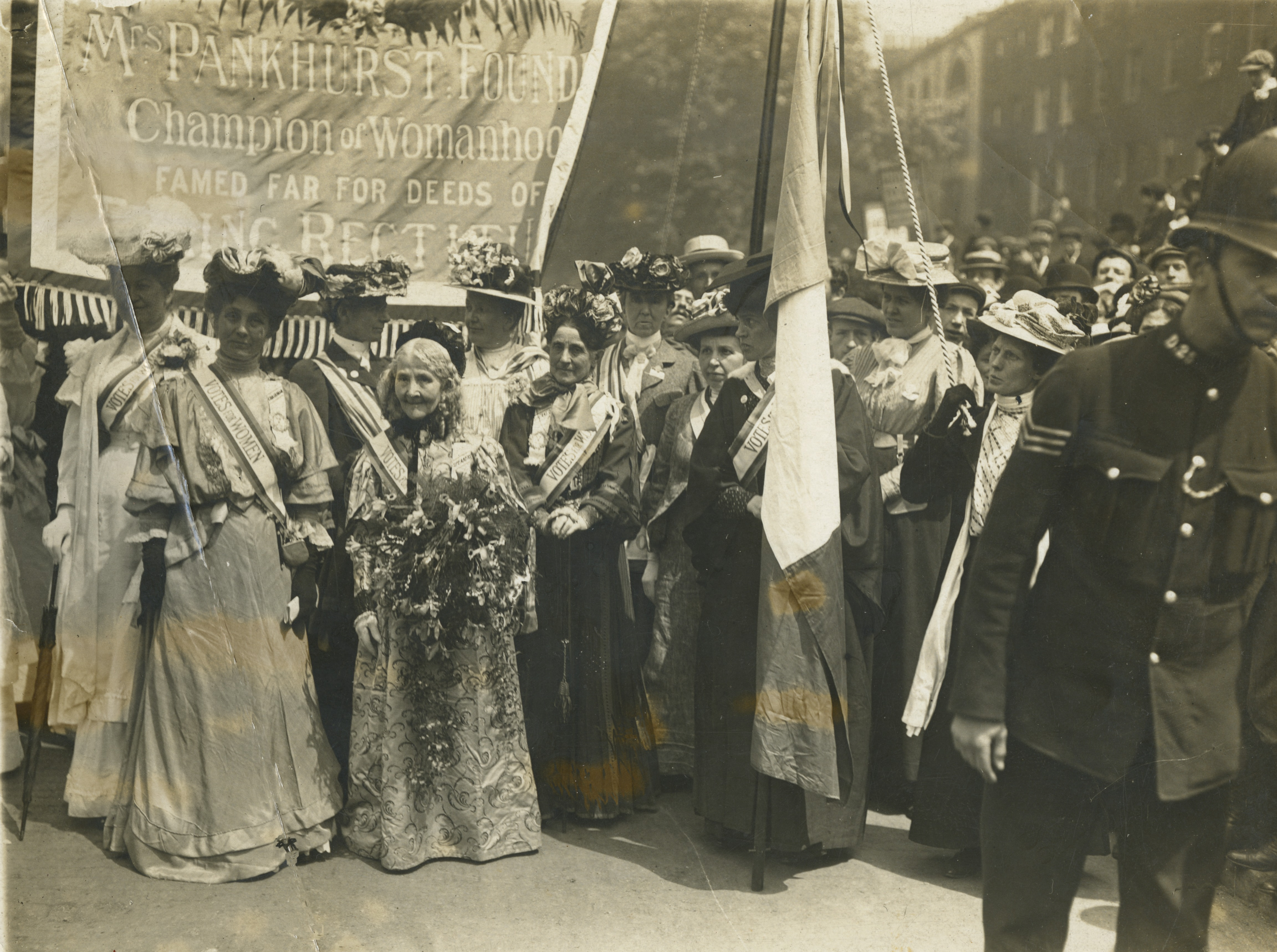 7JCC/O/02/019 Photograph, printed, paper, monochrome, Emmeline Pankhurst and Elizabeth Wolstenholme Elmy standing in front of a large fabric banner ('MRS PANKHURST FOUND.. Champion of Womanhood FAMED FAR FOR DEEDS OF [DARING RECTITUDE]'), Mrs Wolstenholme Elmy holding a large bunch of flowers, with onlookers, 21 Jun 1908; printed inscription on reverse 'Halftones Limited, 17 Fleet Street, London EC'